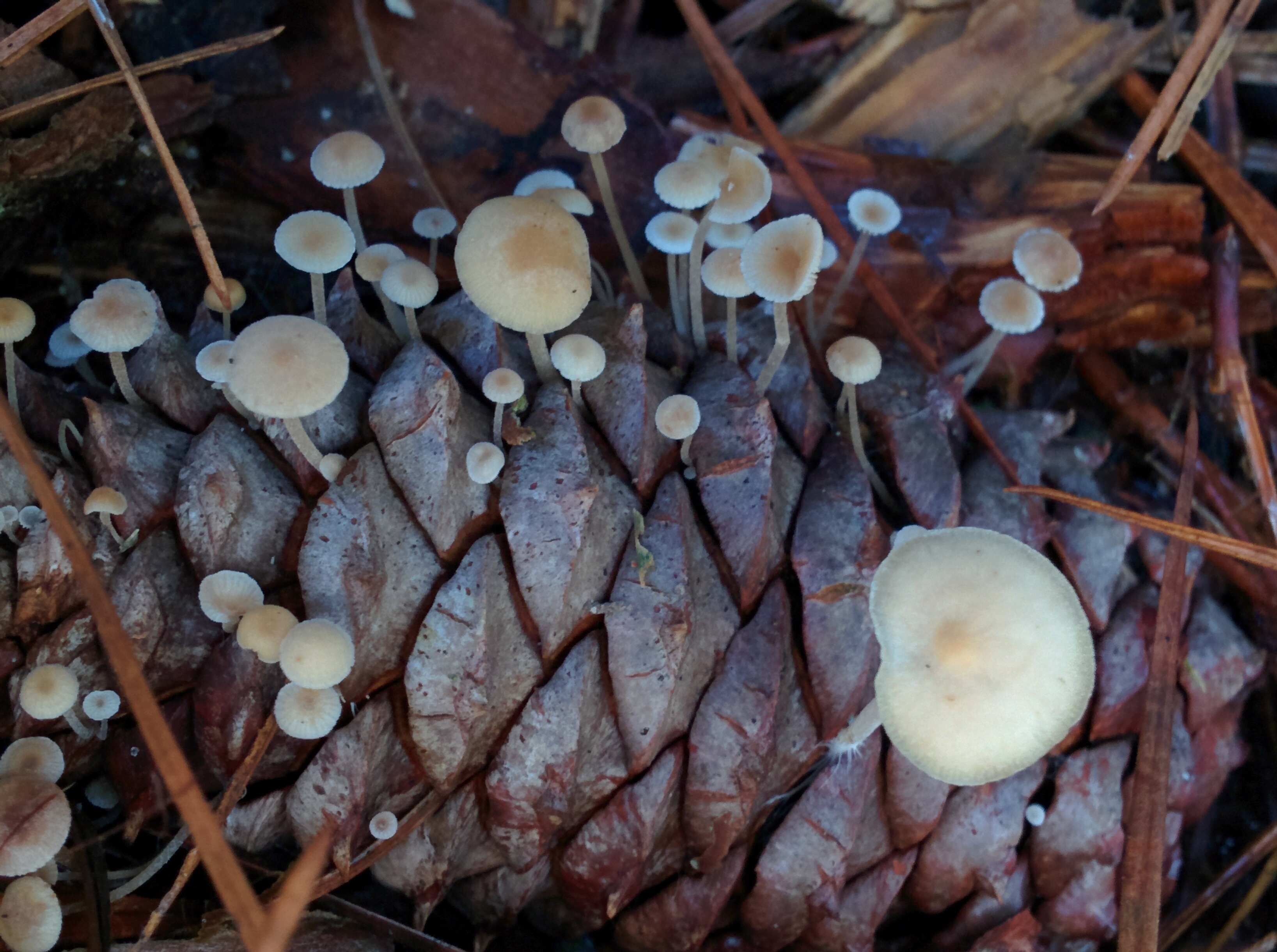 Fruit bodies of the fungus Baeospora myosura (Fries) Singer. photographed at Redden State Forest, Sussex County, Delaware, USA.